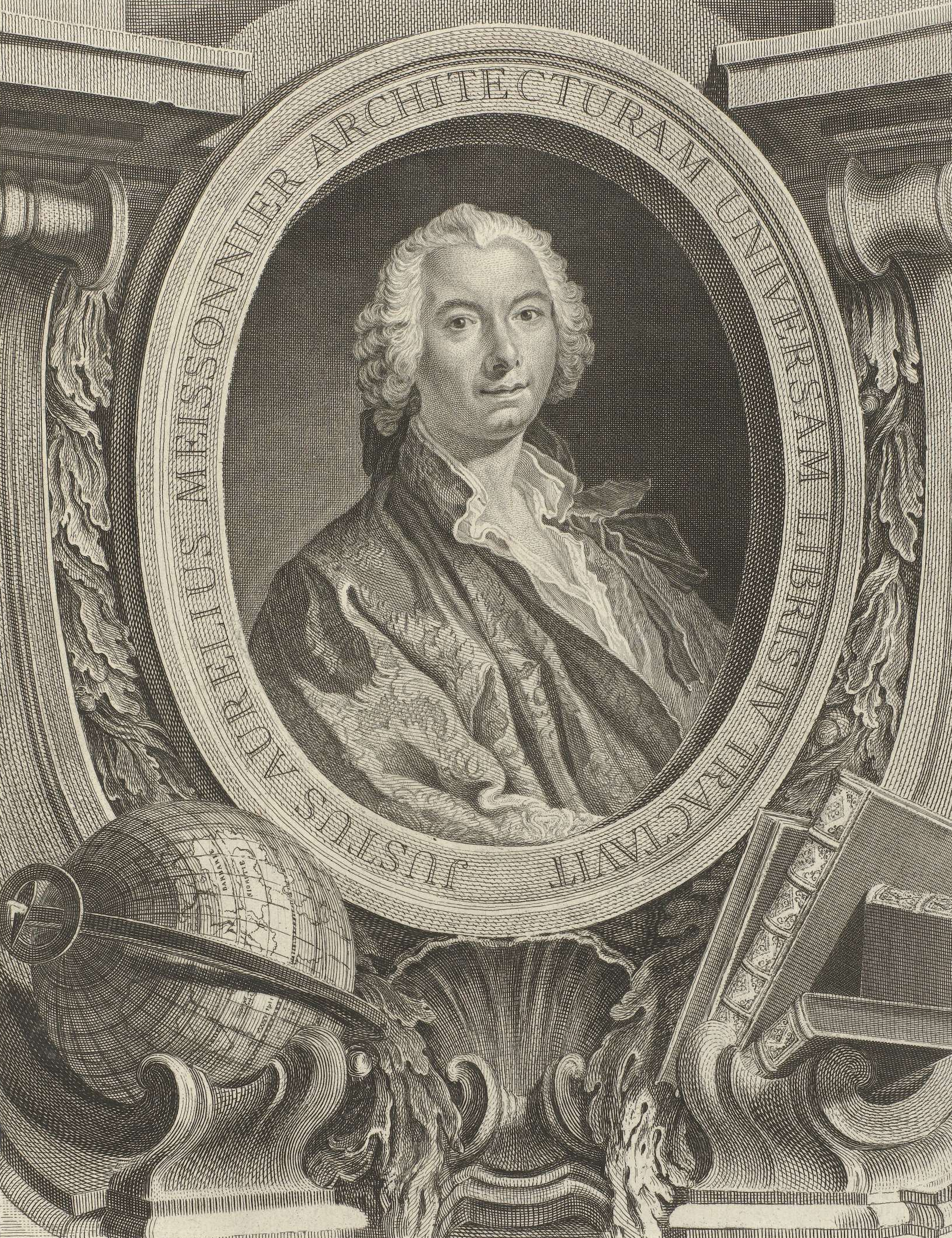 Self-portrait of Juste-Aurèle Meissonier (1695–1750), French goldsmith, sculptor, painter, architect, and furniture designer.